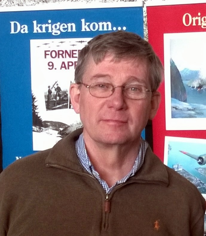 Norwegian journalist and author